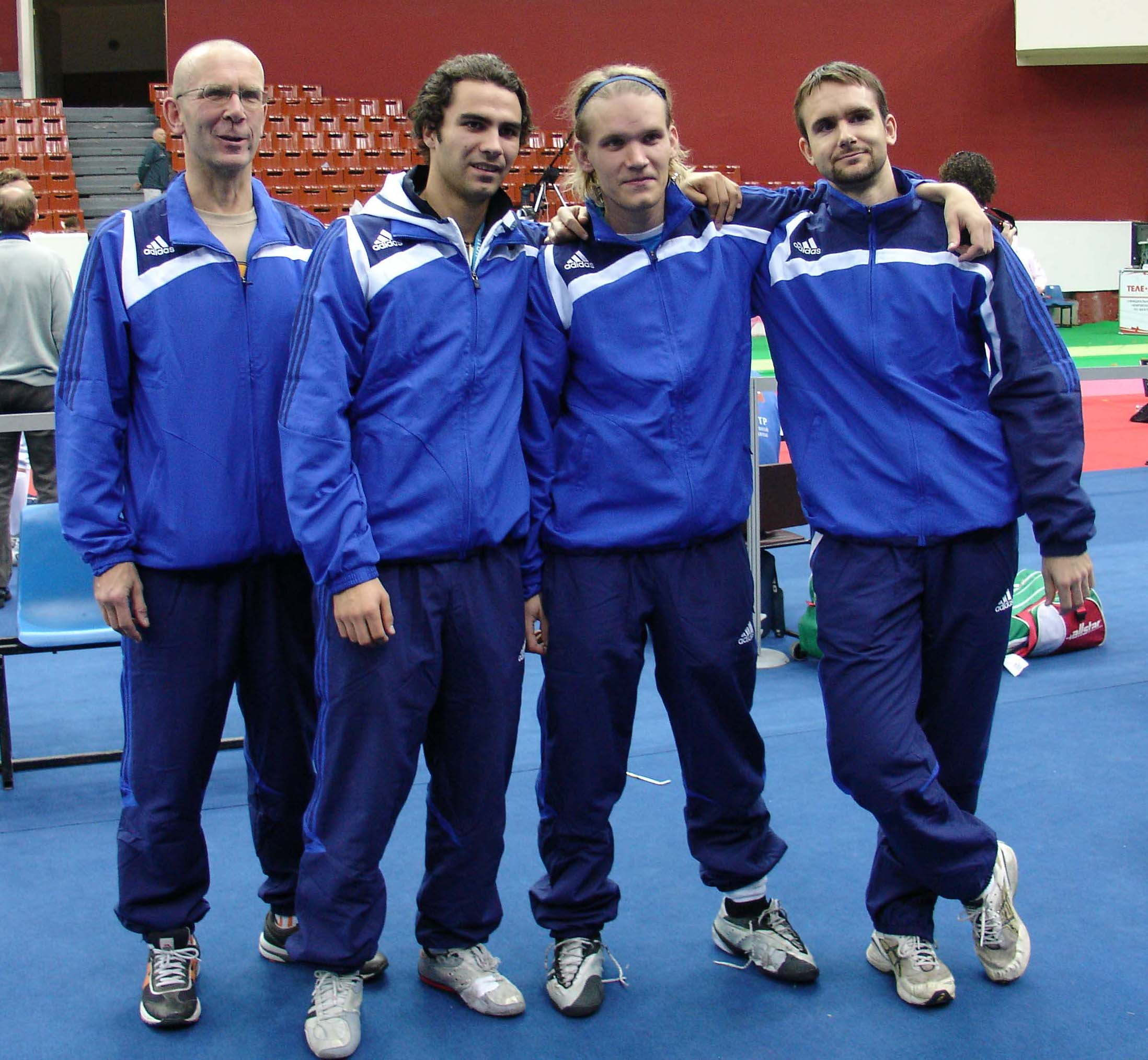 Finland's men's epeé team in st. Petersburg World Championships. From left Kimmo Puranen (coatch), Dennis Bade, Jussi Korhonen, Andras Koroknay-Pal.